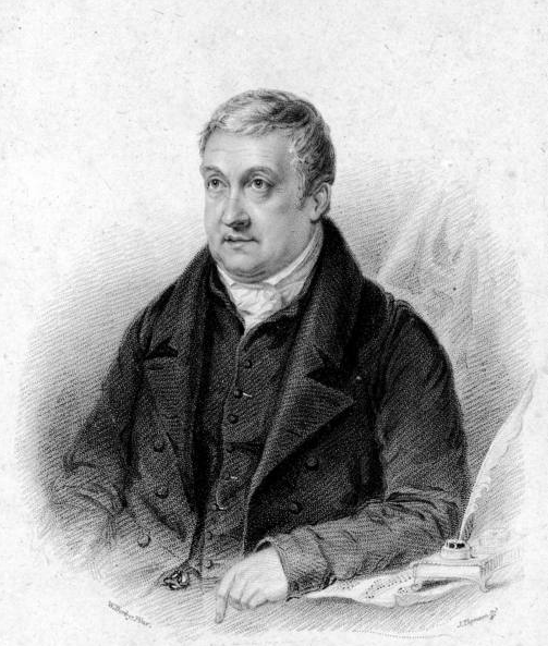 Portrait of William Crotch engraved by James Thomson (1789-1850) after a painting by William Derby (1786-1847).